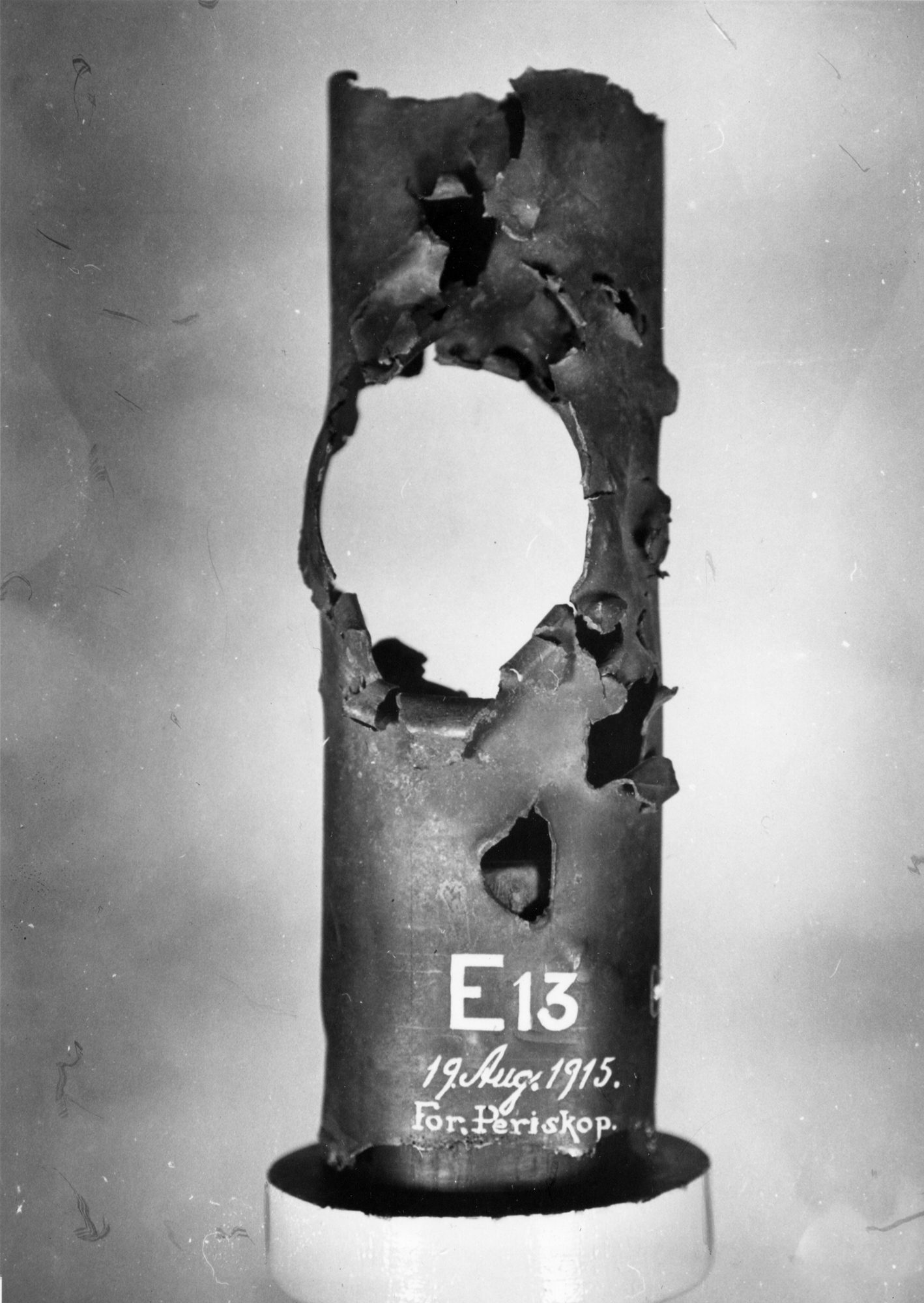 HMS E13's pierced periscope